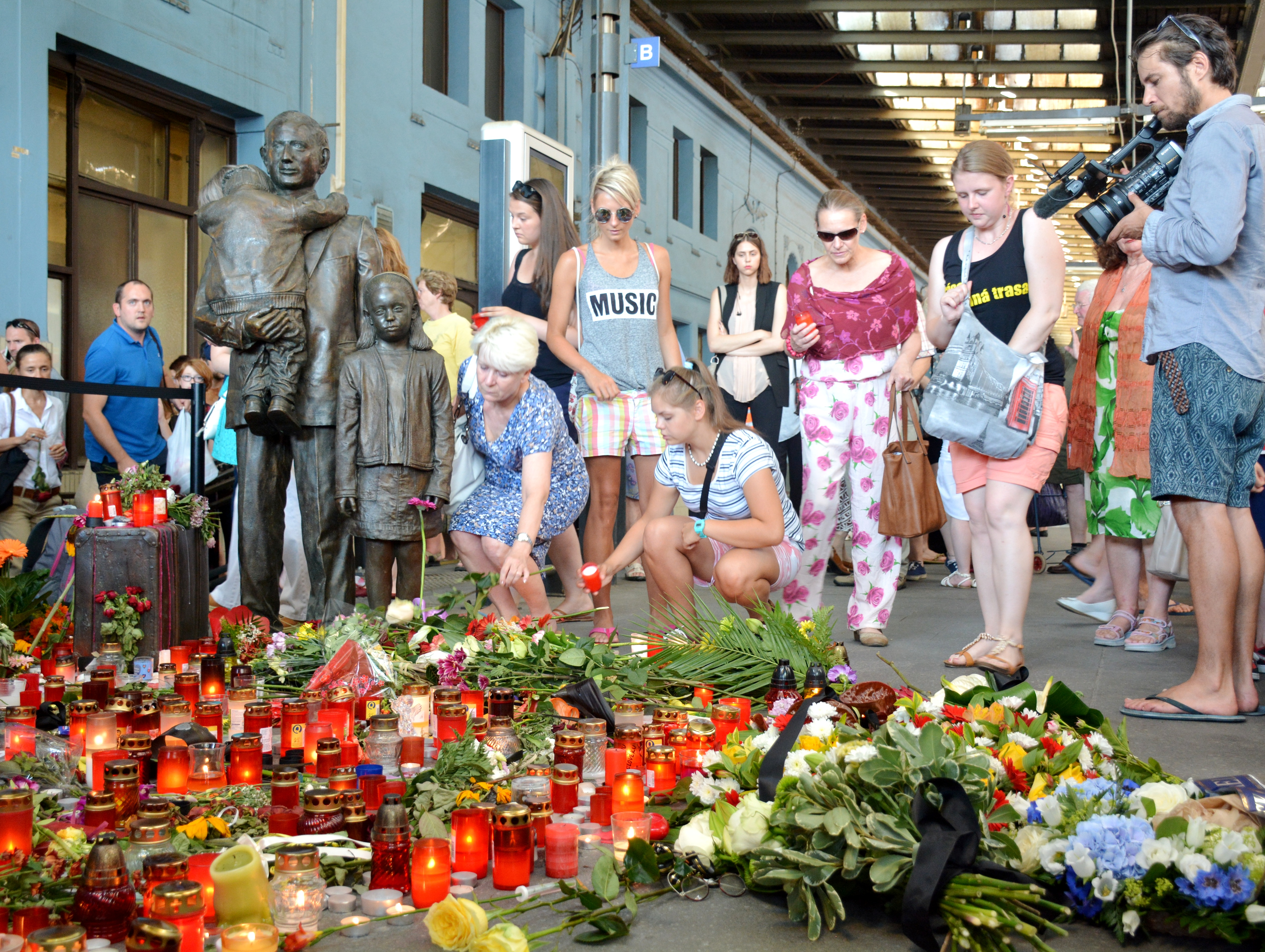 Commemorative event to honor the memory of Sir Nicholas Winton on the first platform at the Prague Main Railway Station at the sculpture, which is dedicated to him. Sculpture author: Flor Kent; sculpture unveiling date: Sept.1st, 2009.